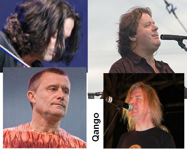 Former members of short-lived Asia spinoff Qango. 1,063×1,600 (312 KB)